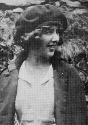 Louise Bryant Original caption: “They were the happiest days of her life, those first months in Greenwich Village in 1916 with John Reed in their coldwater flat on South Washington Square. The Village, before World War One, was home for men and women “respectable” people shunned – artists, rebels, dancers, musicians, poets, writers, nonconformists – many of whose names, however, now appear on America’s cultural and political rolls of honor. It was no place for timid vacillating souls. When Louise and Reed went off and got married, Art Young, the Herblock cartoonist of that era, warned them: “Don’t for the love of God, tell anybody what you have done. You’ll never live it down.””